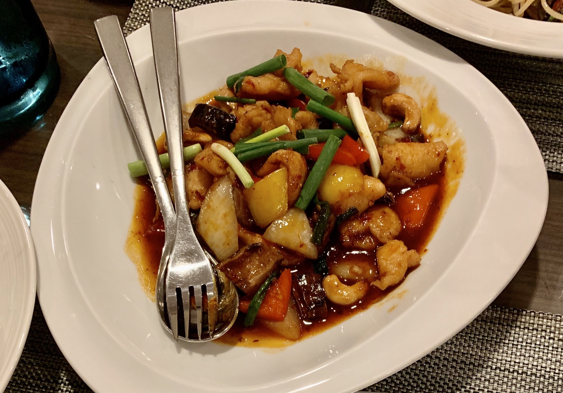 Cashew Chicken as Thai food, known as Kai Phat Met Ma Muang